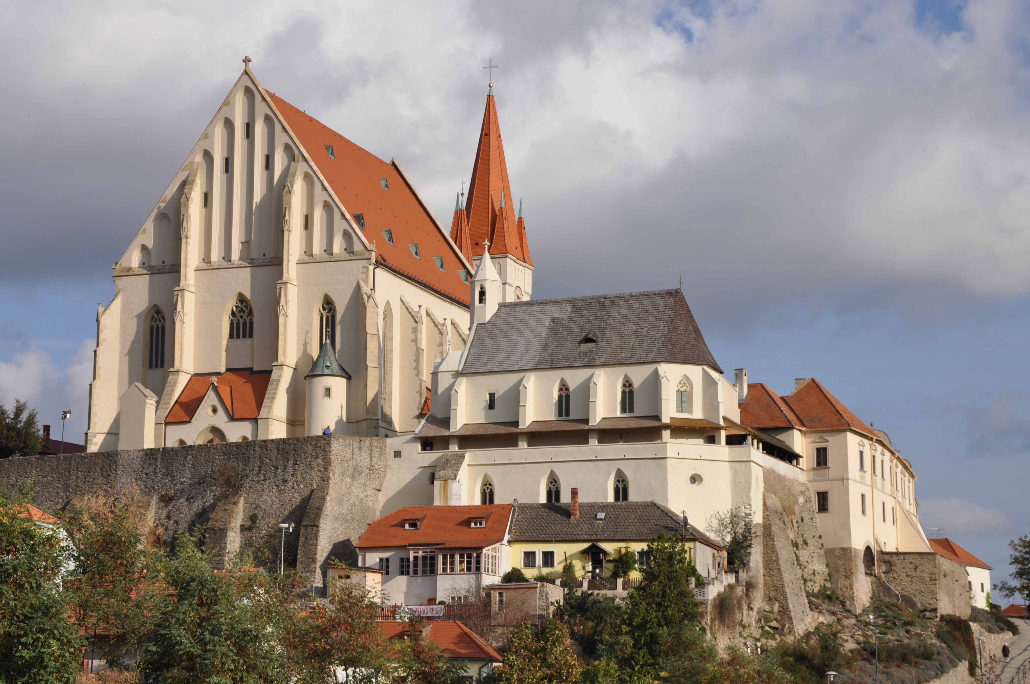 Znojmo, Czechia.